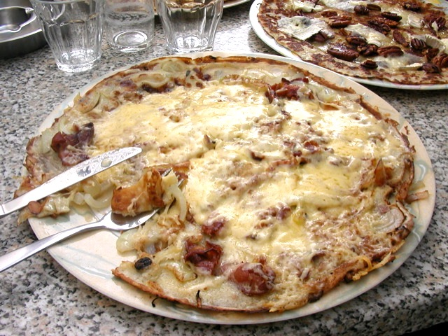 The Ultimate Pancake: Dutch pannekoek with bacon and onions, smothered in Gouda cheese.